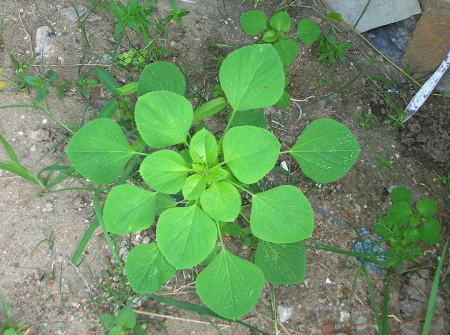 Acalypha indica, Ratchaburi Province, Thailand